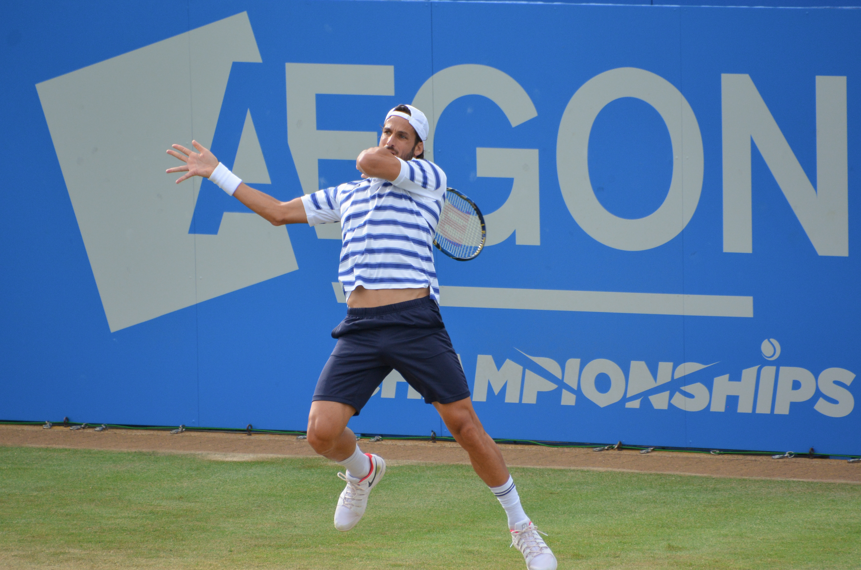 Aegon Championships 2017.